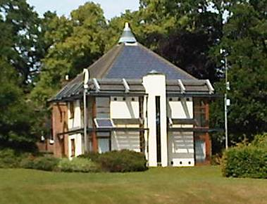 Image of the David Wilson House built on the University Campus at the University of Nottingham as part of the Creative Energy Homes project.